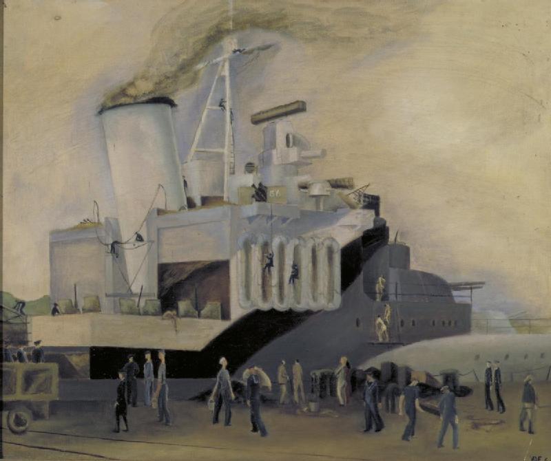 The superstructure of a camouflaged warship seen from a dockside with workers and painters in attendence.